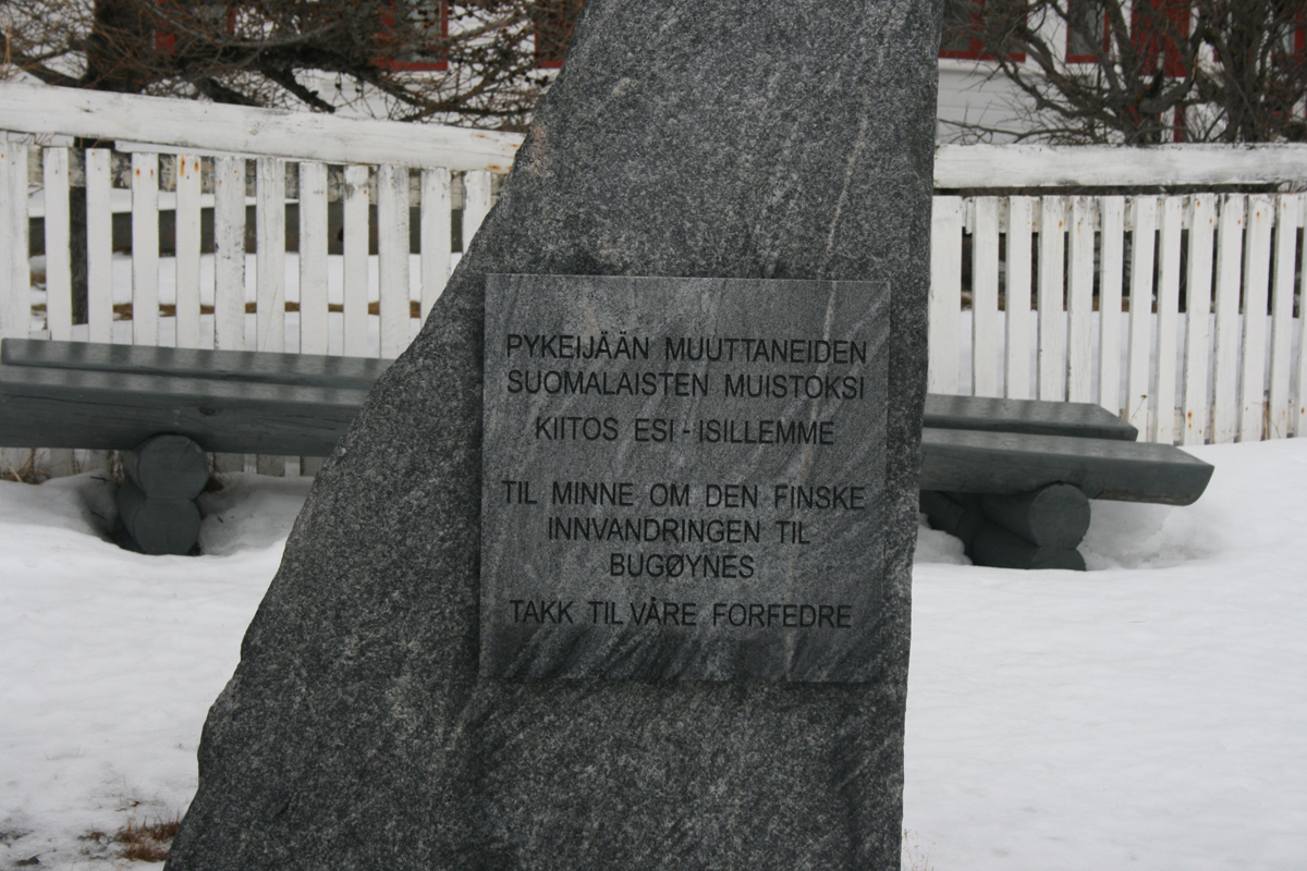 Bauta in Bugøynes, Norway. Memorial of Finnish Imigrants